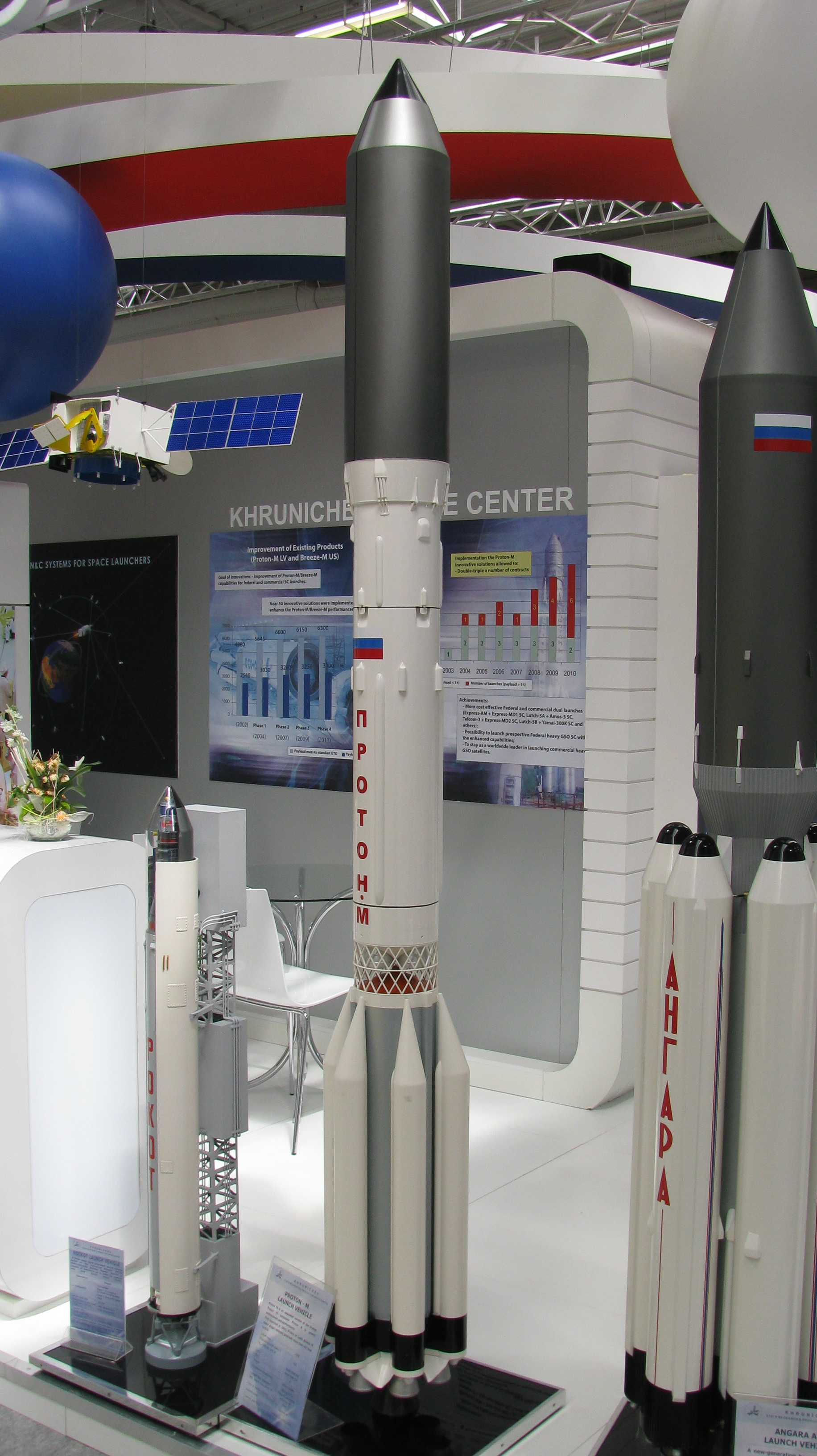 Model of Proton-M launcher with 5m fairing during the Paris Air Show 2011